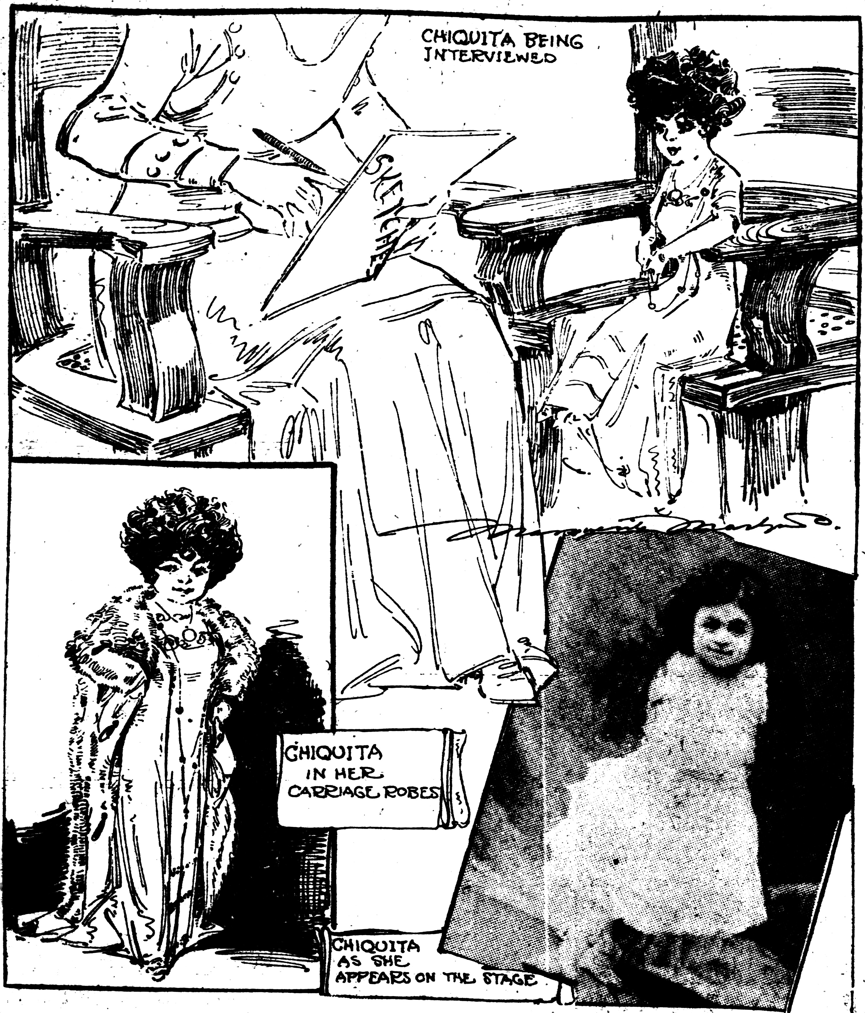 Espiridiona Cenda, known as Chiquita, being sketched by Marguerite Martyn, with a photo of Cenda, and a separate sketch by Martyn. 1910.